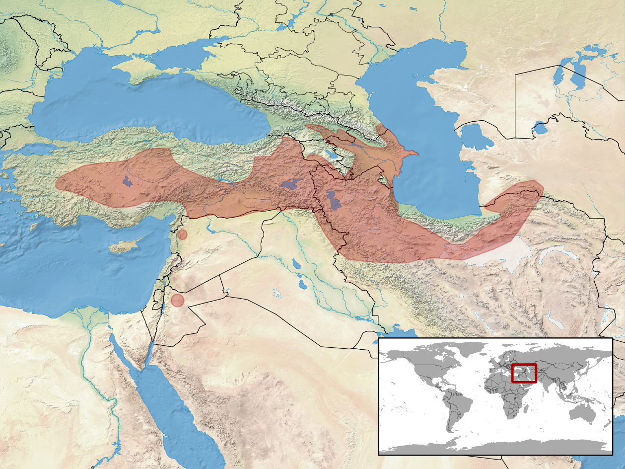 geographic distribution of Dolichophis schmidti (Native: Armenia (Armenia); Azerbaijan; Georgia; Iran, Islamic Republic of; Jordan; Russian Federation; Syrian Arab Republic; Turkey; Turkmenistan)